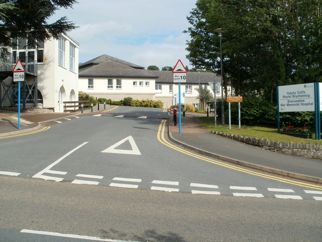 Entrance to Brecon War Memorial Hospital